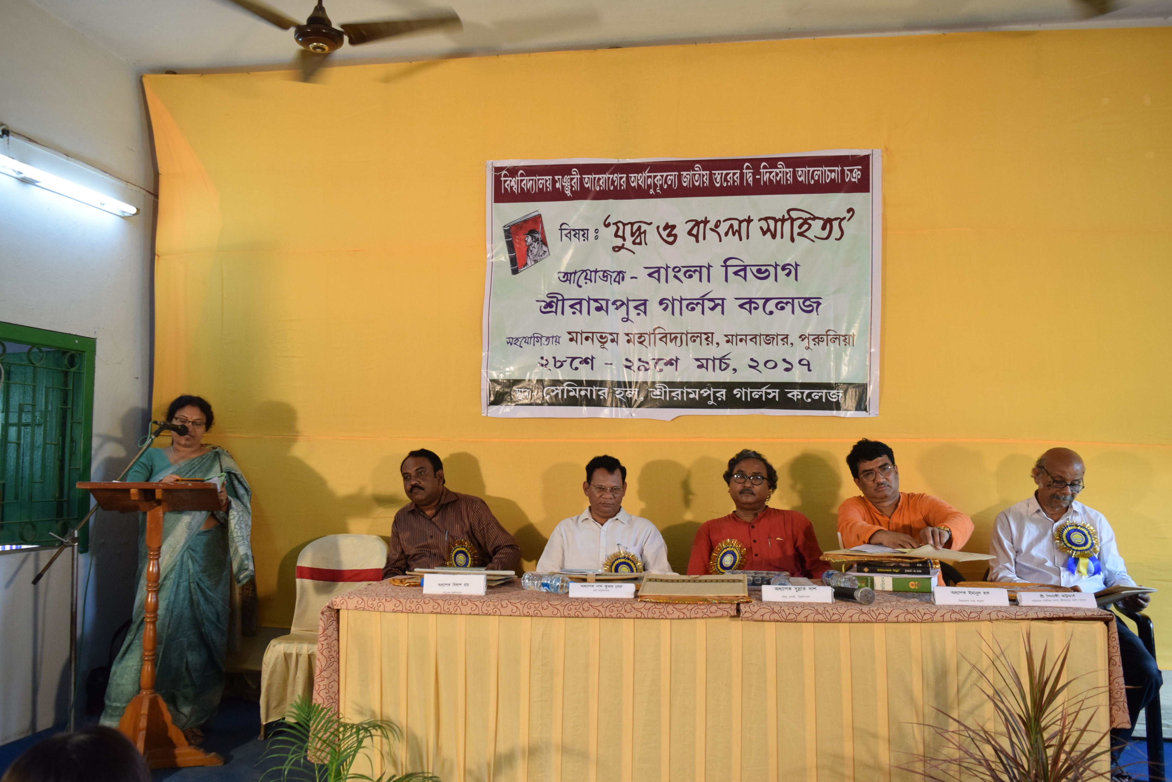 Seminar of Bengali Dept